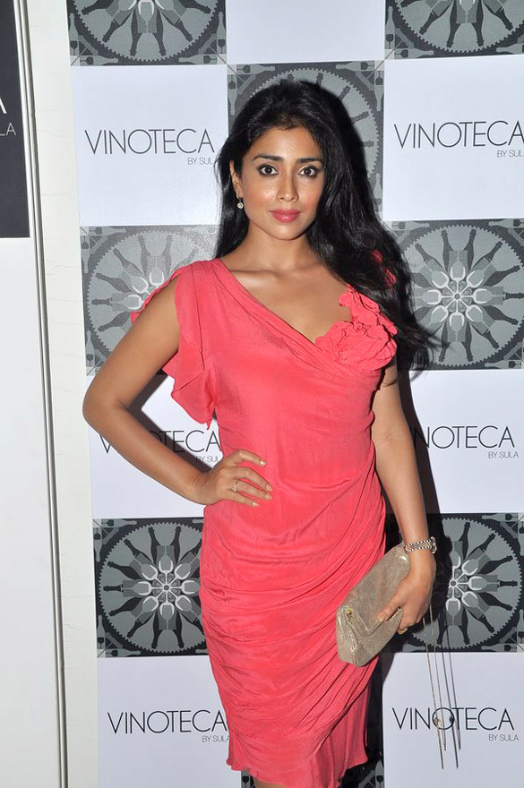 Shriya Saran at Launch of Sula's Vinoteca.